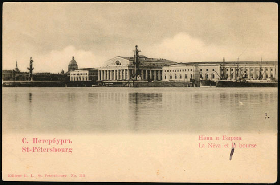 Spit of the Vasilievsky Island in St. Petersburg with the old stock exchange (bourse) in the center.